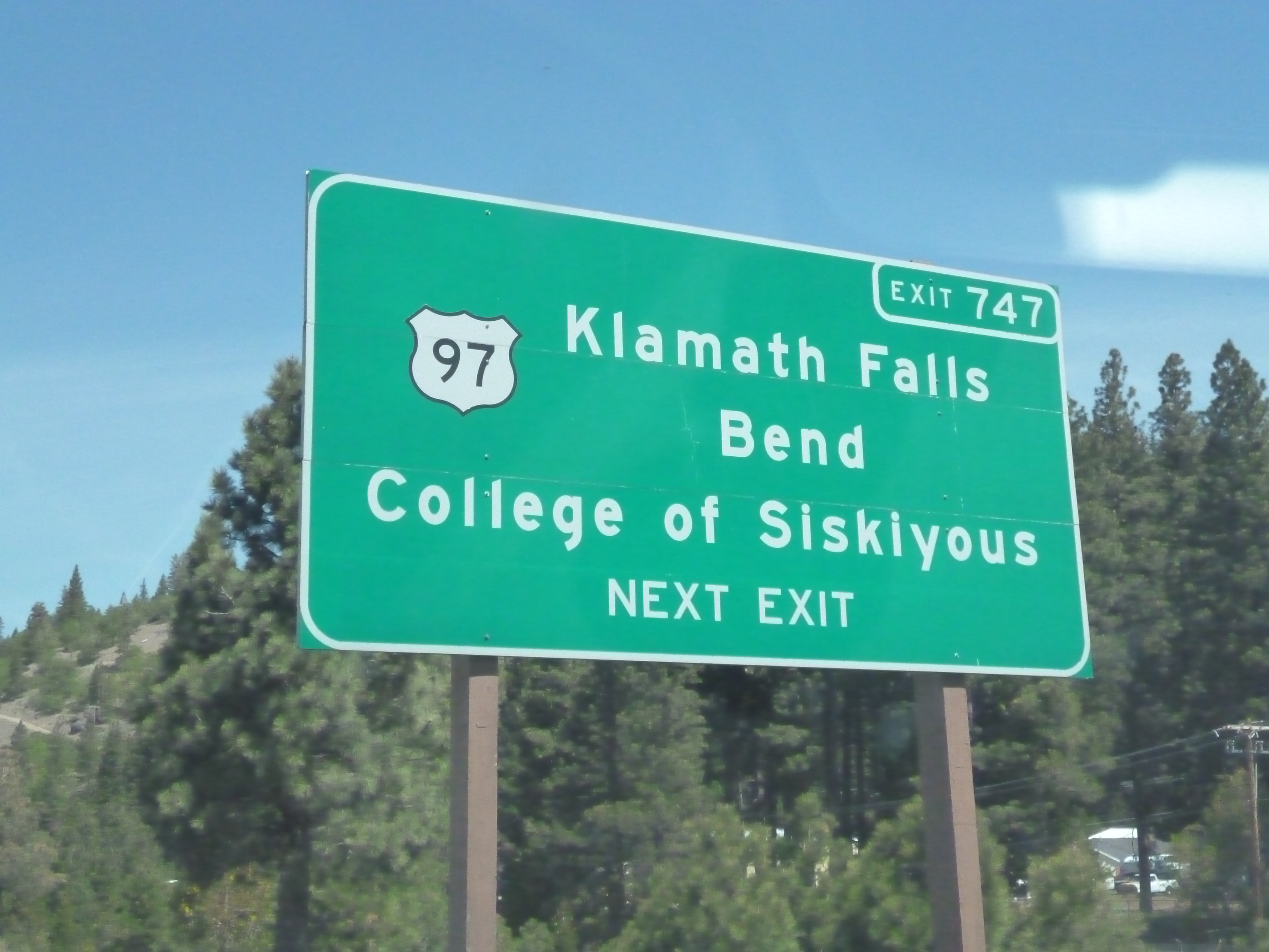 Sign showing US 97 exit off Interstate 5 in Weed, California.